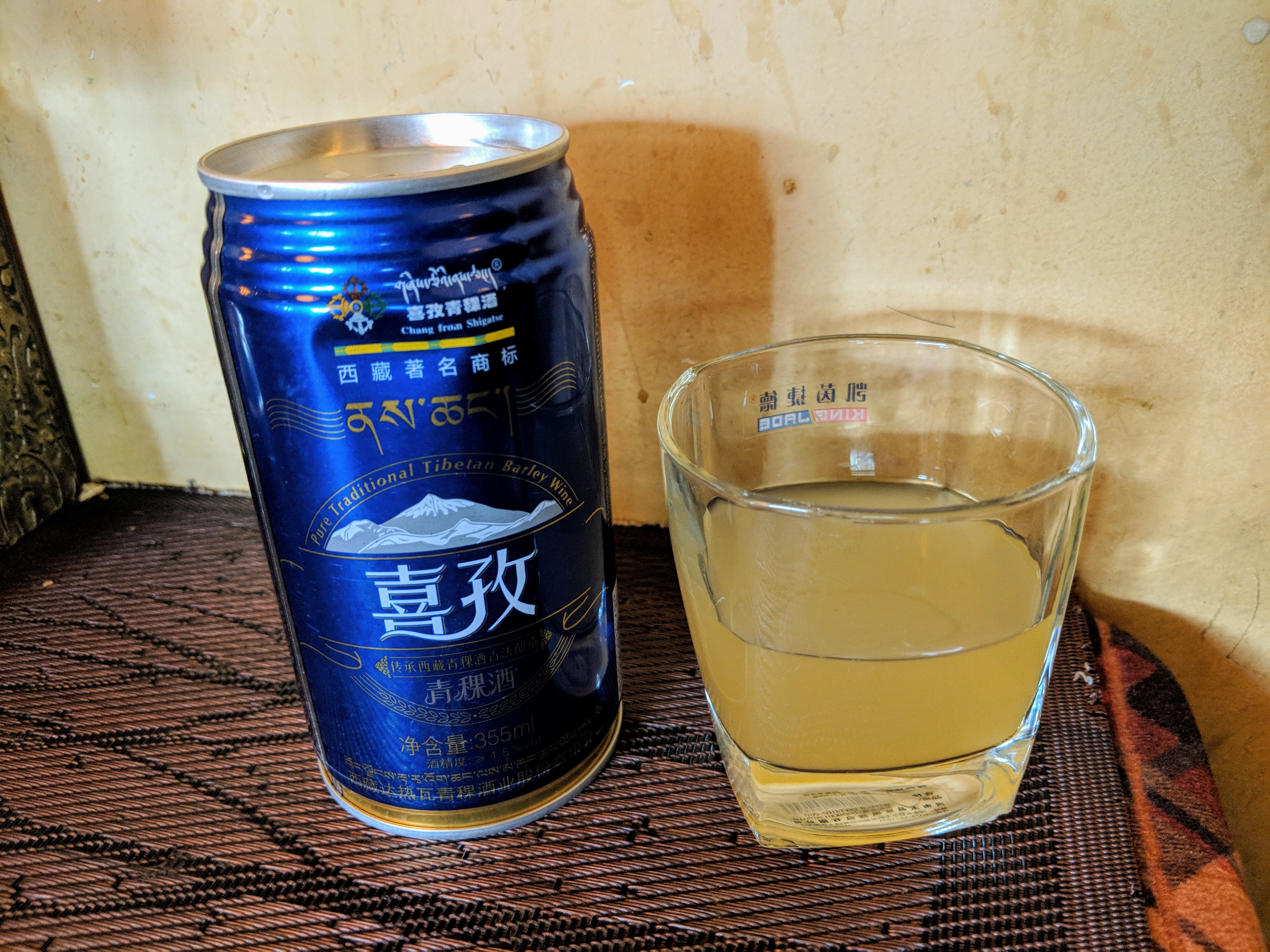 A commercially produced chang (barley wine/beer) produced by Darhawug Rinbog Tibet Chang Co Ltd of Shigatse, Tibet.